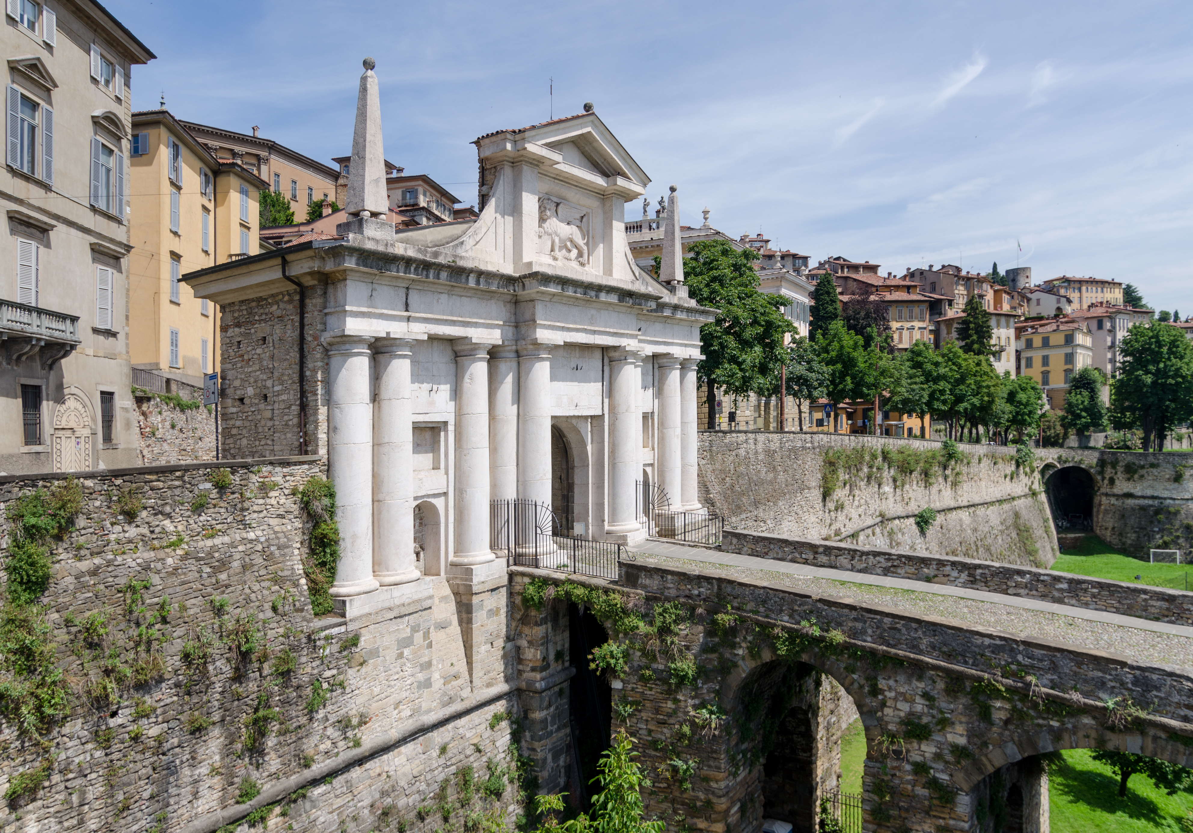 Bergamo (Lombardy, Italy) – upper city – fortification wall – city gate Porta San Giacomo